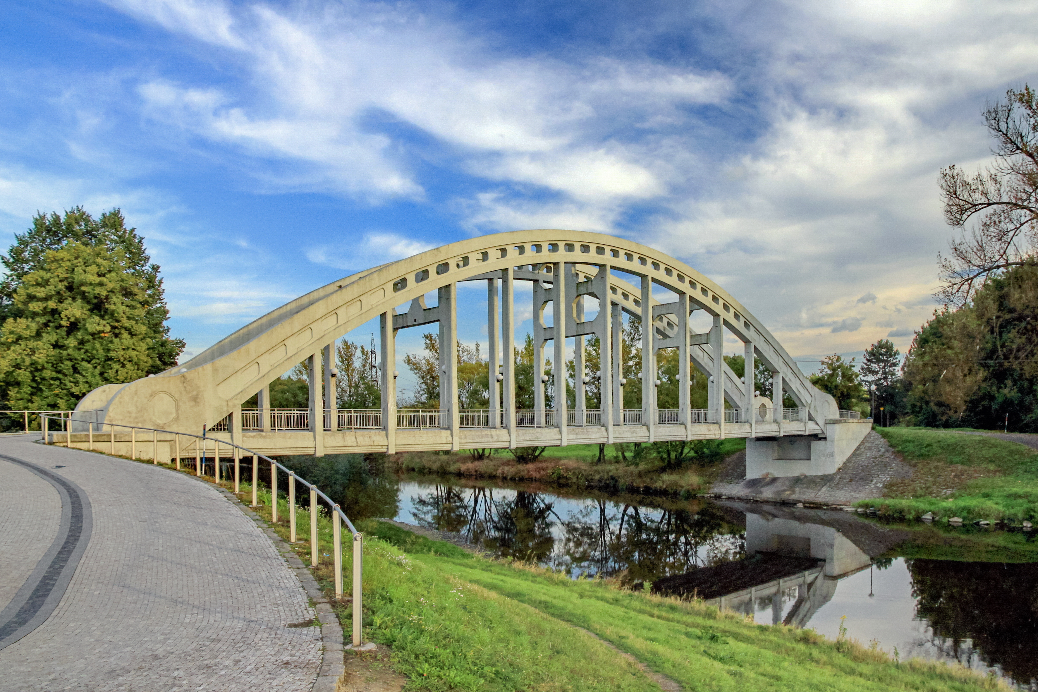 Reinforced concrete bridge, on the Olza river, Darkov. Karviná, Moravian-Silesian Region, Czech Republic.